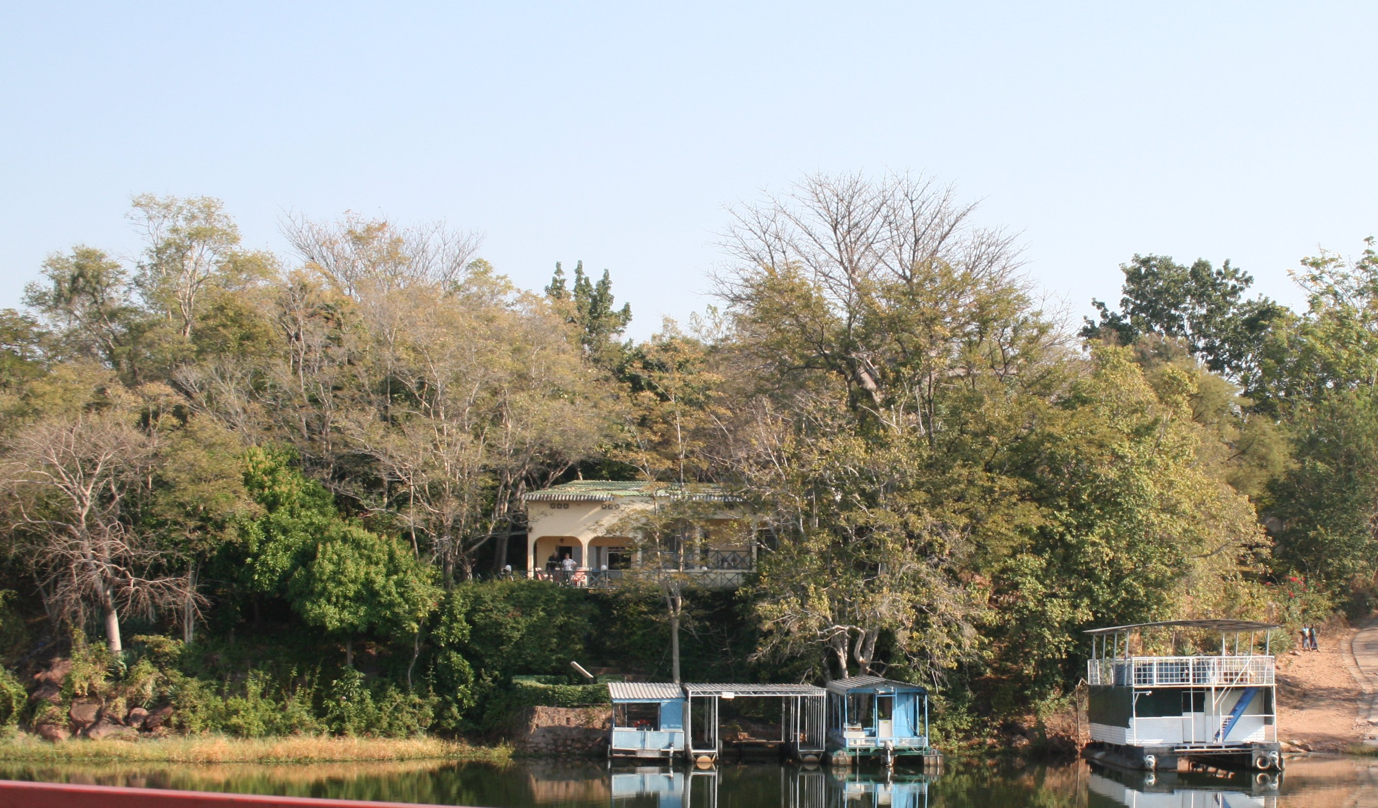 A photo of the Mlibizi Harbour and Mlibizi Resort taken from the Kariba Ferry "Sea Lion"